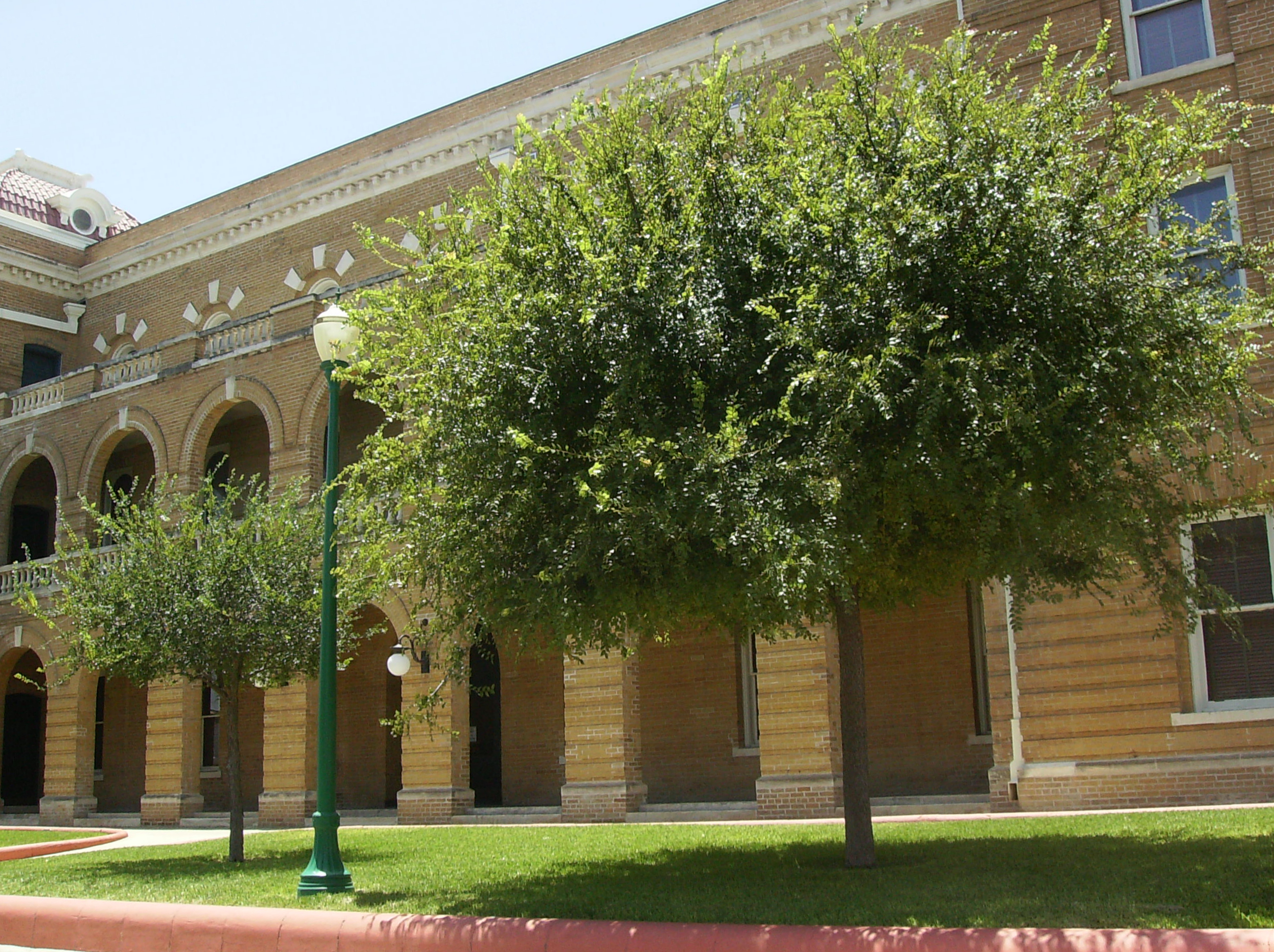 The Webb County Courthouse in Laredo, Texas, United States in 2007.